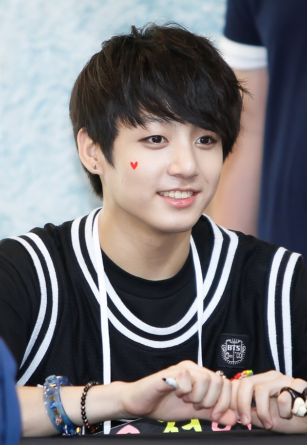 Jungkook at an fansign on July 28, 2013